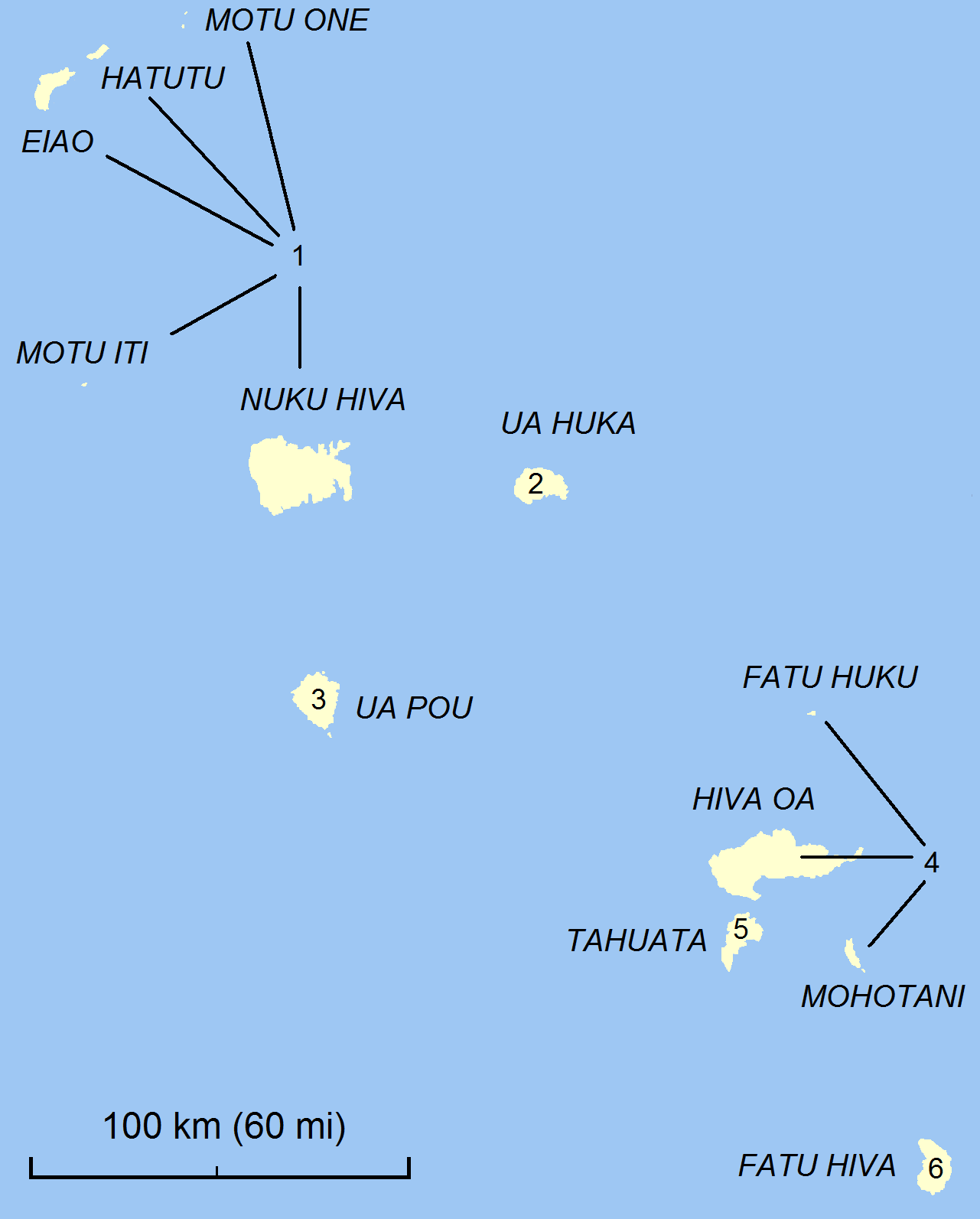 The six communes of the Marquessas Islands